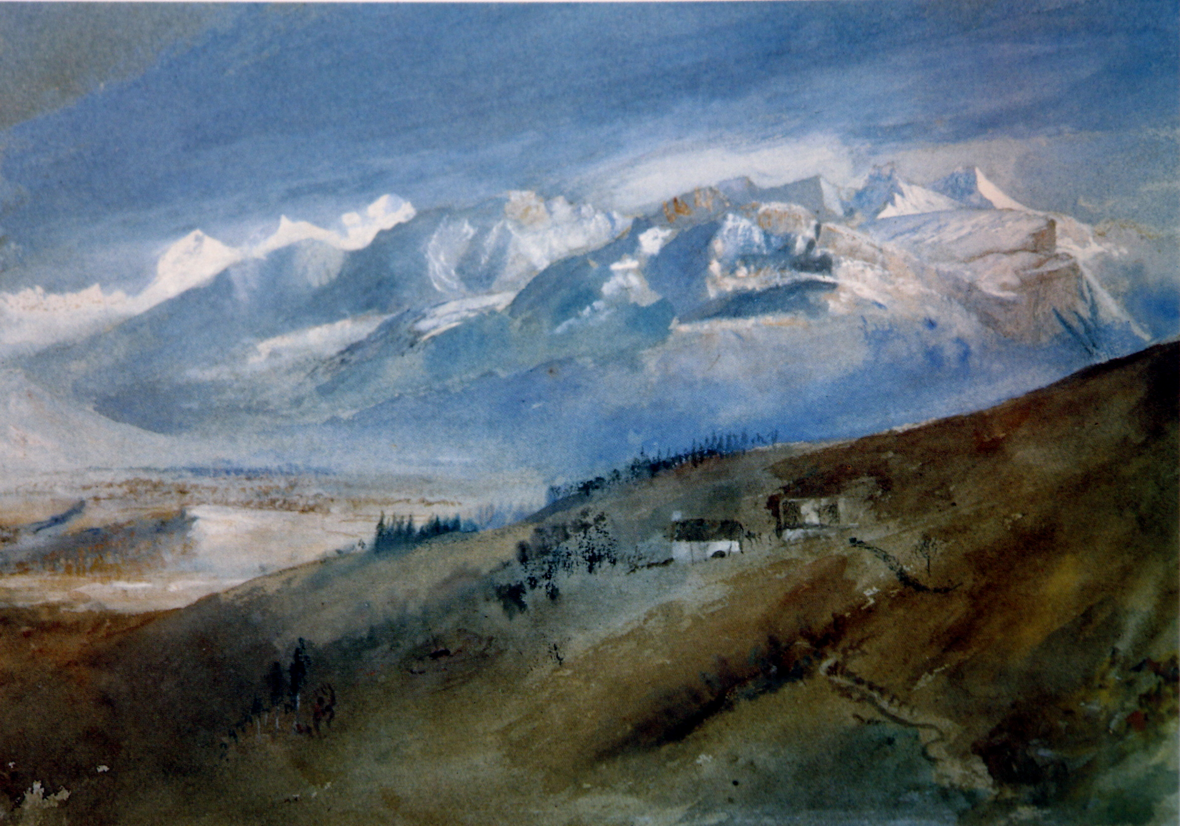 View from my Window at Mornex. Pencil, watercolour and bodycolour, 26 x 36.7 cm